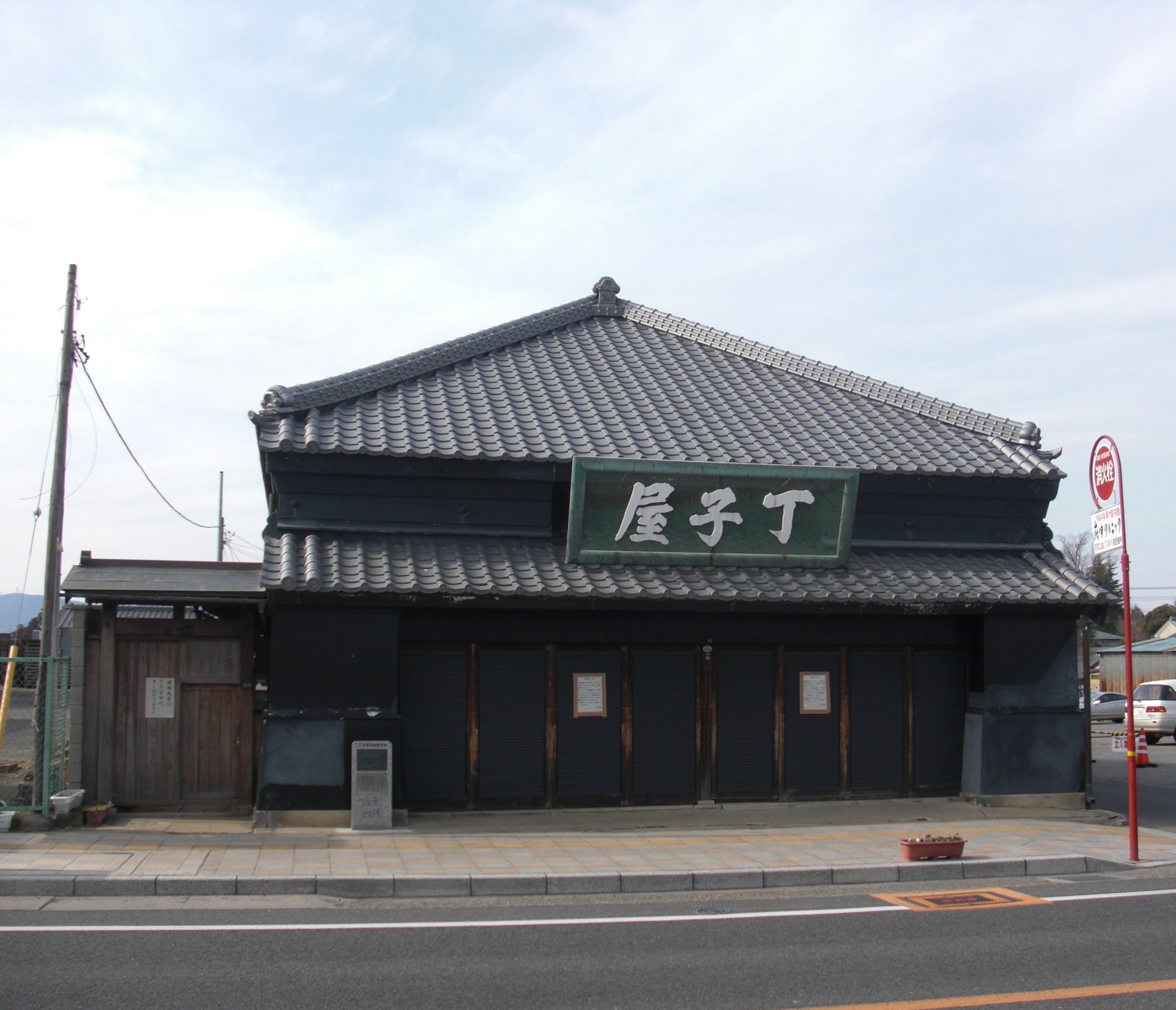 This is the Chojiya in Ishioka, Ibaraki, Japan. This building is a registered tangible cultural property of Japan No.08-0076.